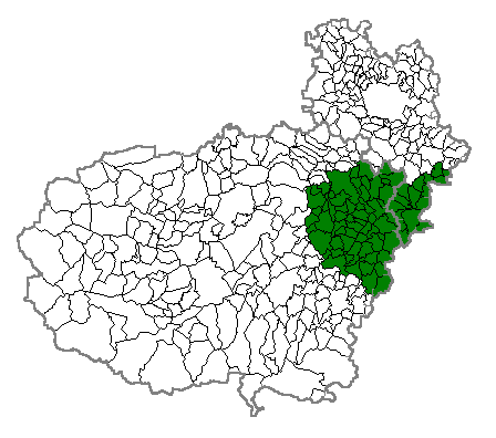 Map of Langhe